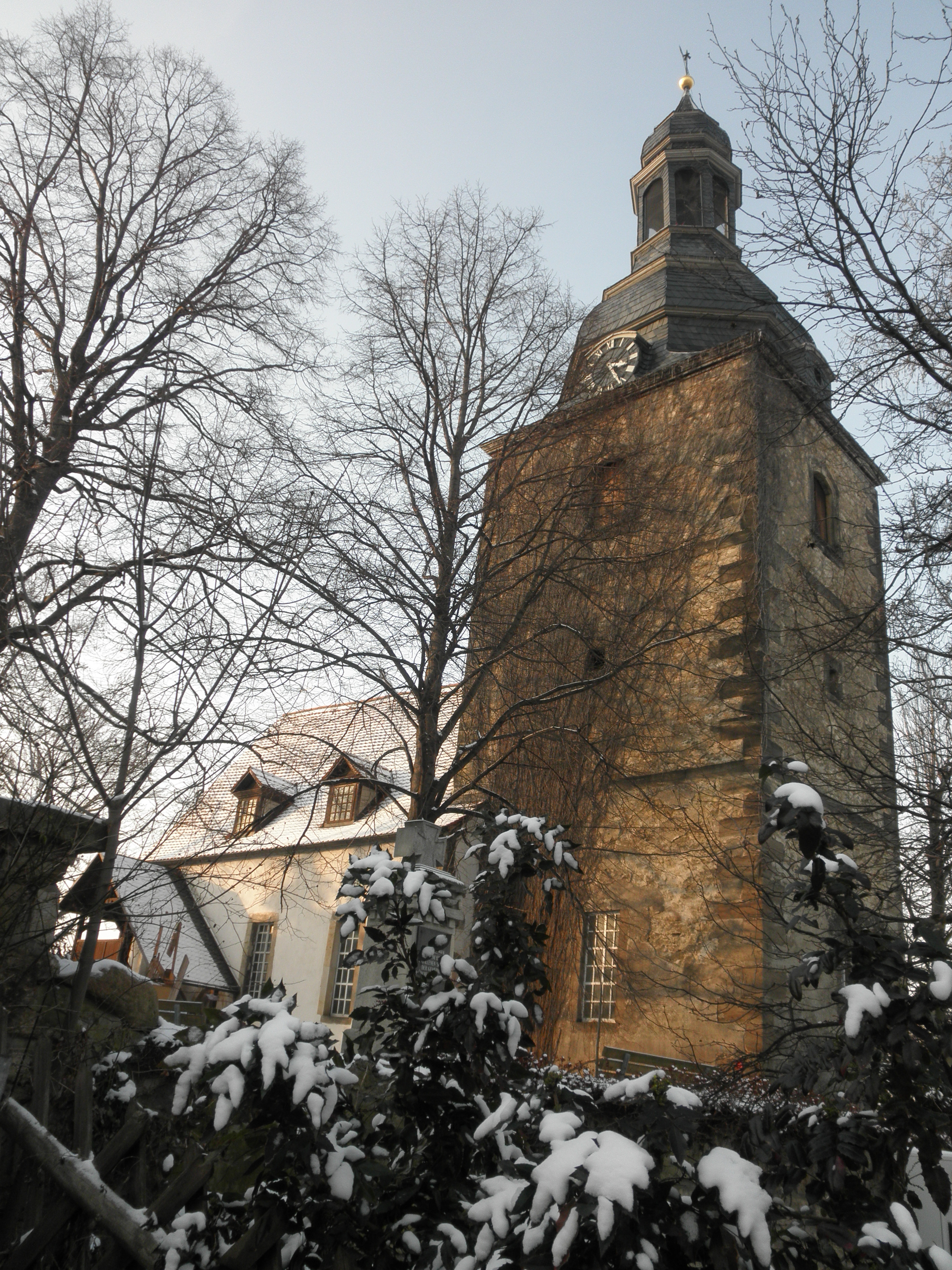 Church in Mönchenholzhausen in Thuringia